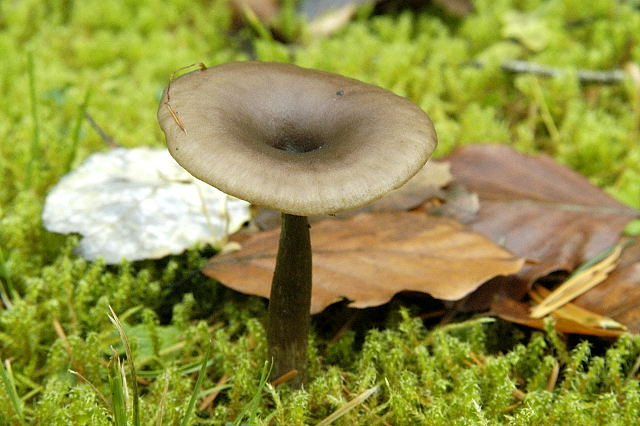 Pseudoclitocybe cyathiformis from Commanster, Belgium. The determination of the species shown in this picture has been verified.